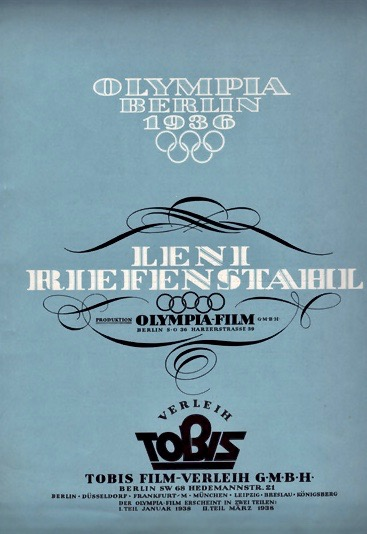 Back-cover of a ten-sided distribution brochure by TOBIS Film-Verleih G.m.b.H. for Leni Riefenstahl's Olympia movie/s, published in 1937/38. The brochure was meant for cinemas/movie theatres only. It was never distributed/sold in public. In the center of this page the movie's production company is mentioned as was Olympia-Film G.m.b.H. Both companies were based in Berlin, Germany. The Olympia-Film G.m.b.H.'s business ended on 31 Dec 1939 whereas the TOBIS Film ended in 1942.